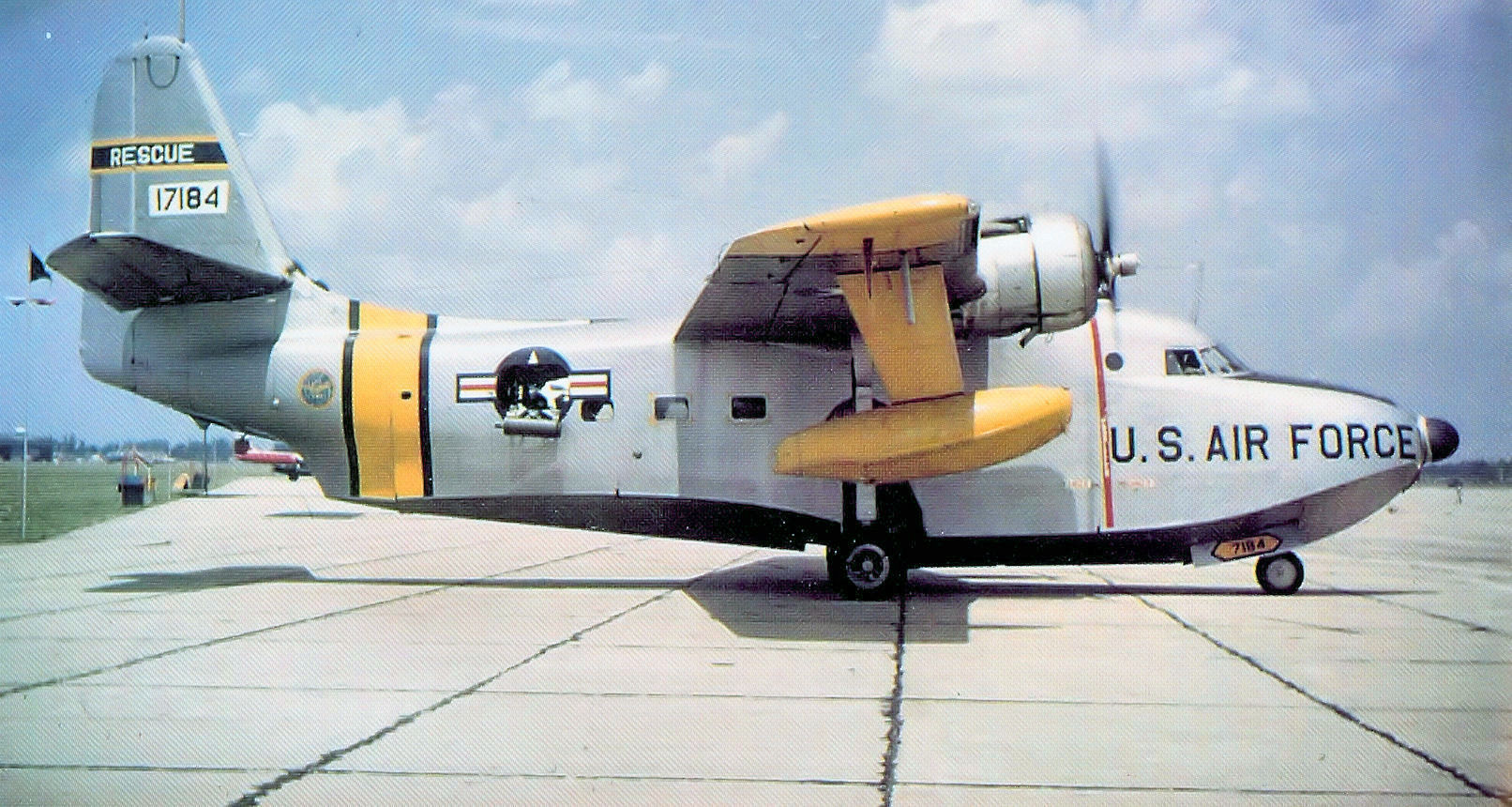 Grumman SA-16B Albatross 51-7255 1960 Note the RATO bottles on the underwing pylon. Aircraft was later transferred to the US Coast Guard, then transferred to Philippines in 1970s. to N7039 of Aircraft Surplus Co, Tucson, AZ